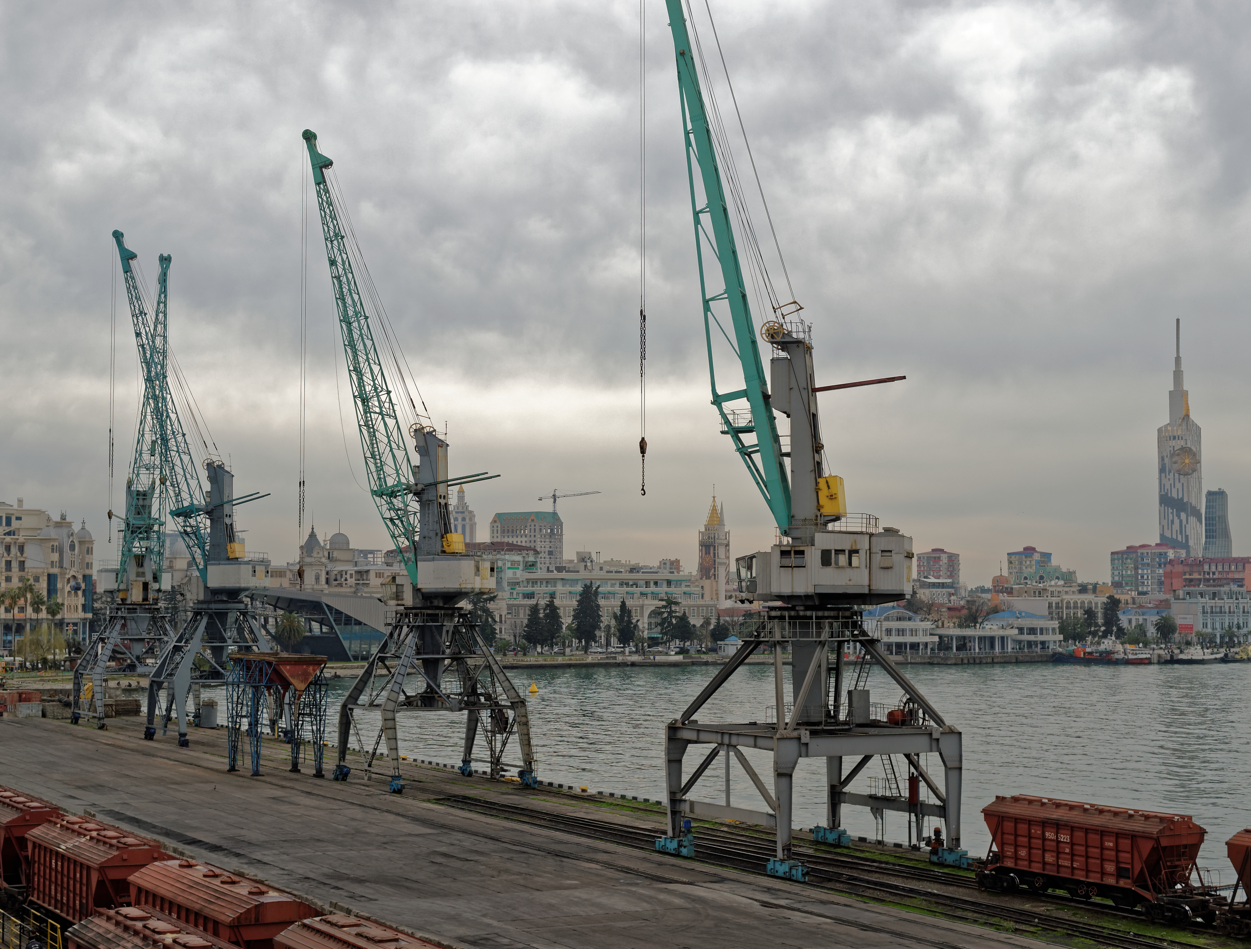 The seaport of Batumi, Adjaria region, Georgia, with the city in the background.